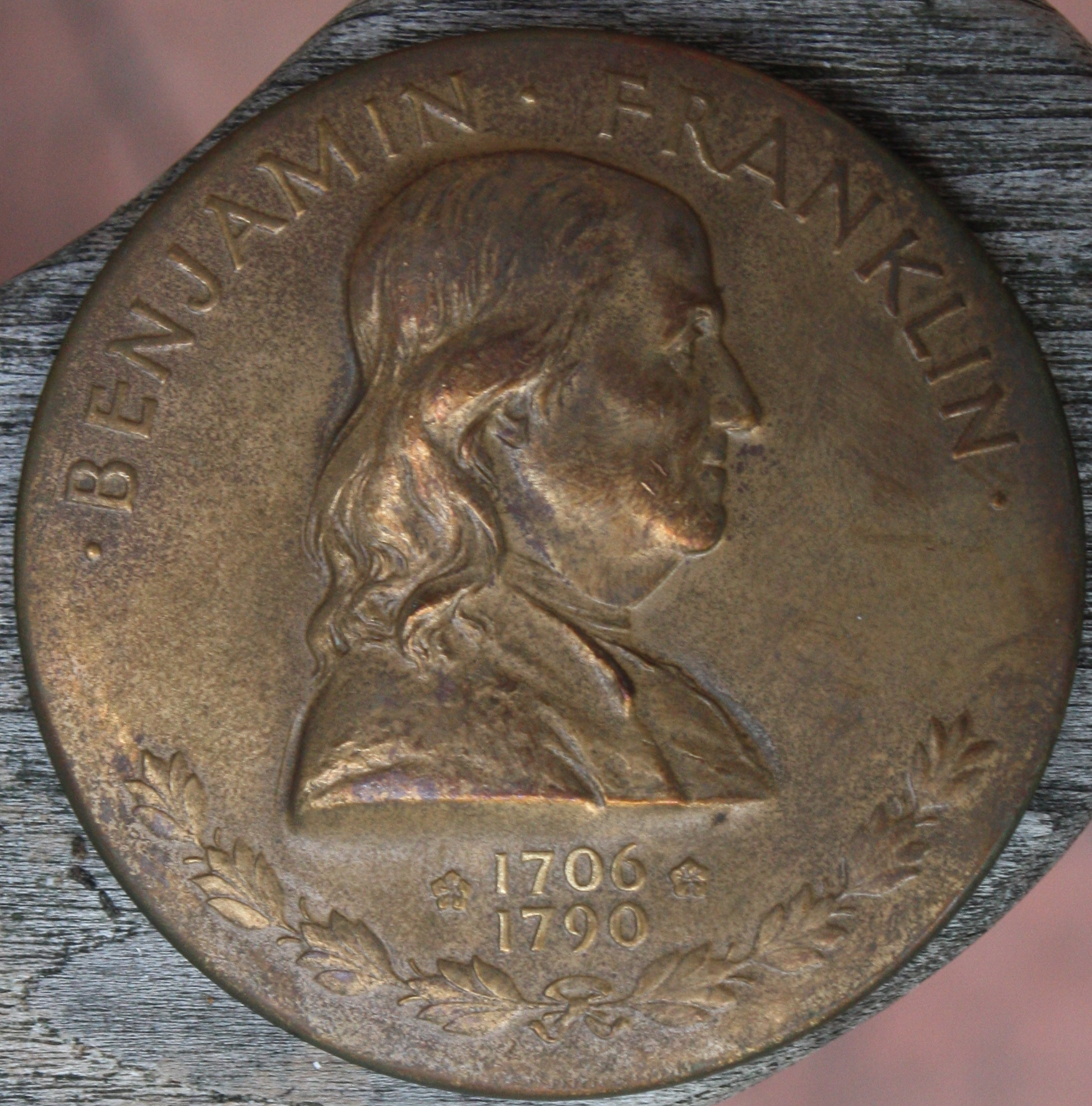 Franklin medal designed by Mint chief engraver John Sinnock. Used as the basis for the Franklin half dollar.